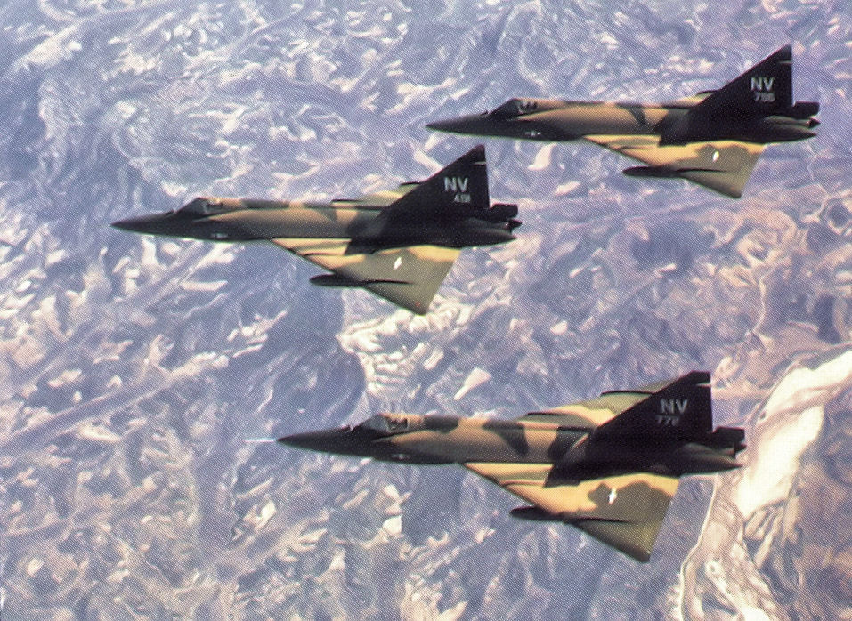 82d Fighter-Interceptor Squadron F-102s over South Korea 1970. Aircraft were deployed on rotational TDY duty from Naha AB, Okinawa. Note the PACAF tail codes and Southeast Asian camouflage motif, as the squadron also provided air support over USAF bases in South Vietnam